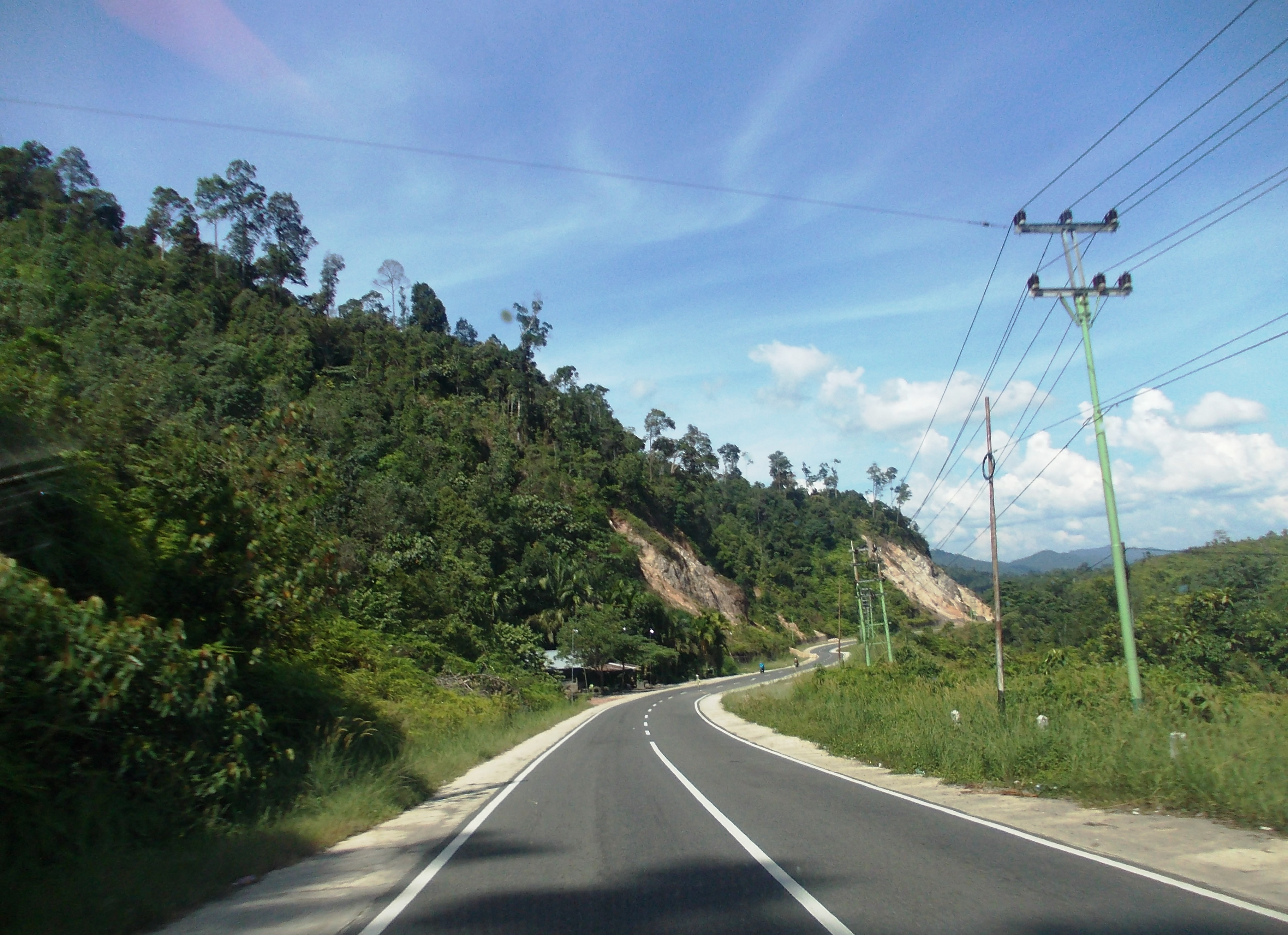 The road that connects Pekanbaru in Riau province with Padang in West Sumatra. Photographed not far from the border between the two provinces, namely in Kampar regency, Riau.